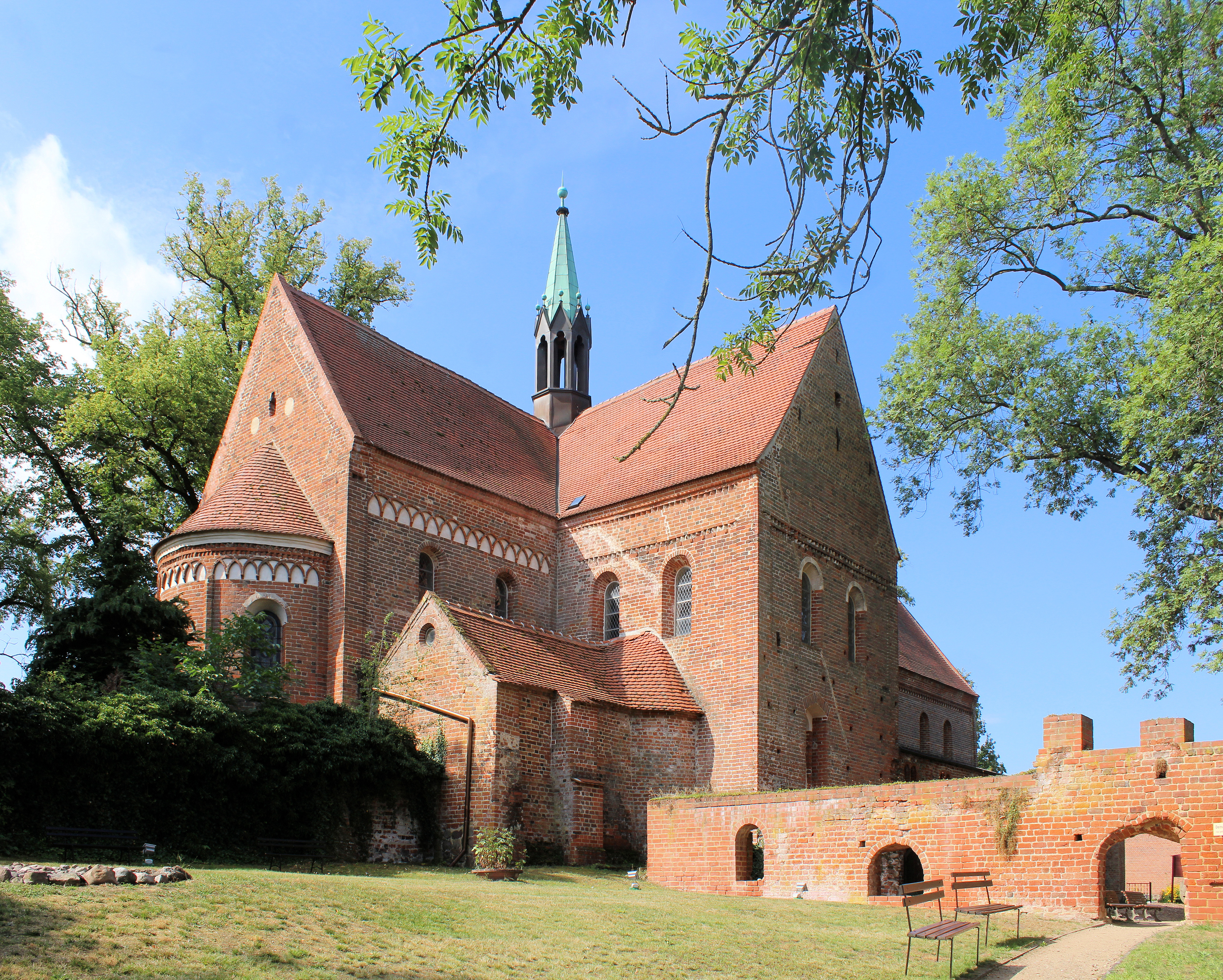 Arendsee (Altmark), the monastery church St. Mary